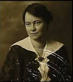 Passport images of the Parrish Sisters Williamina (left), Grace (right)